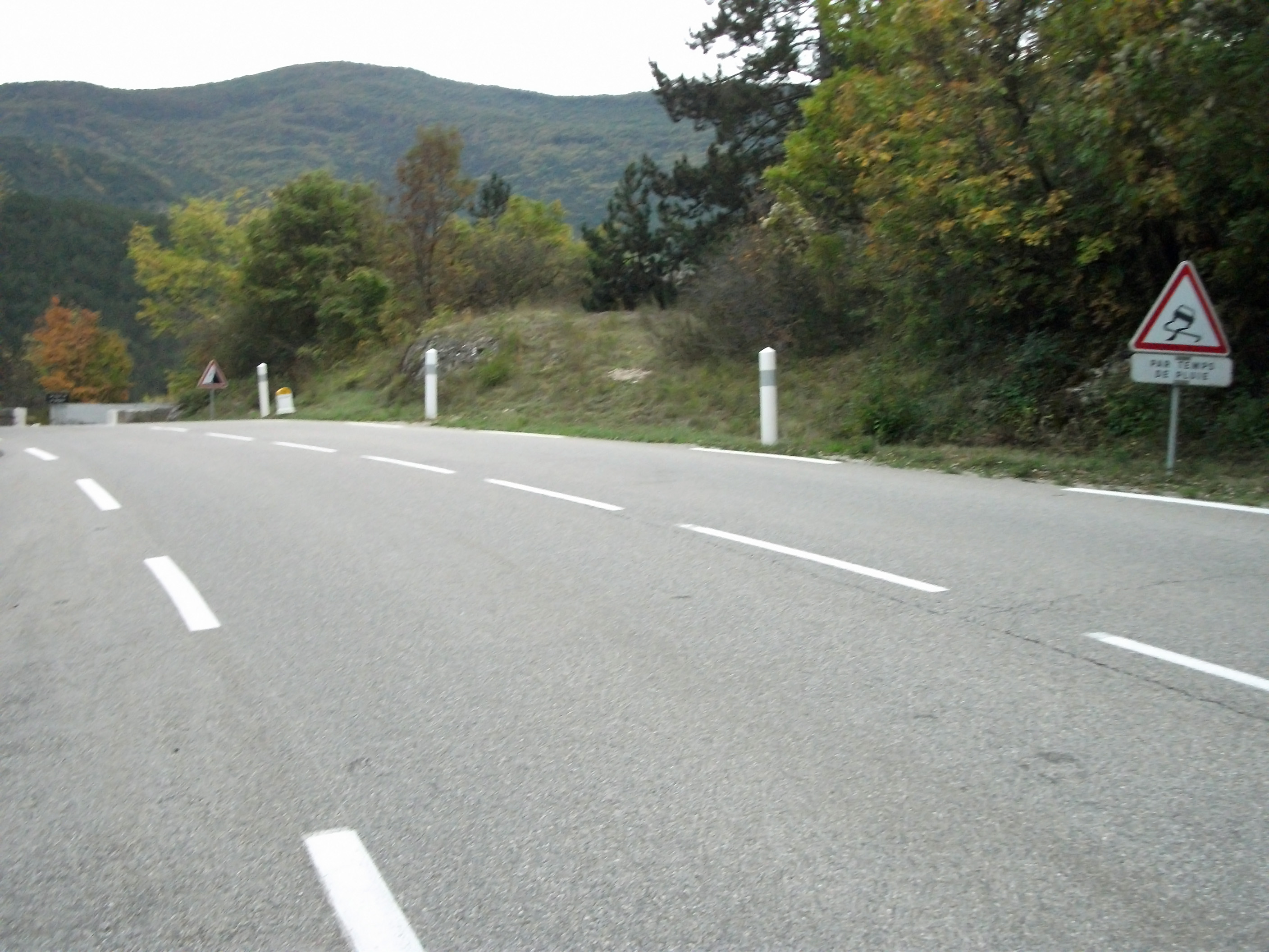 Departmental road 93 (former route nationale 93), 2.5 km (1.5 mi) in the south-east of Luc-en-Diois, towards Valence. Before the saut de la Drôme. [7174]